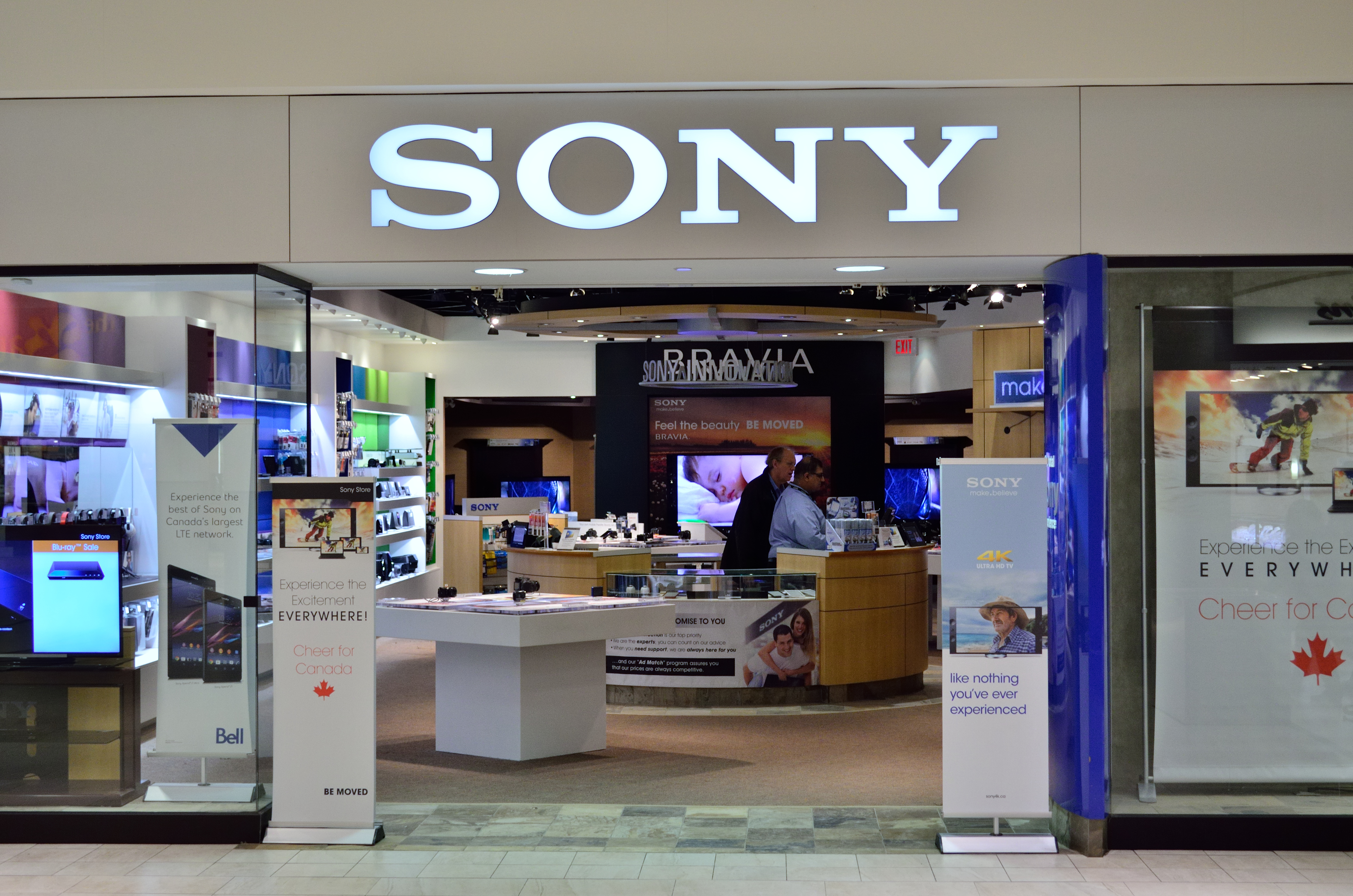 Sony Store at Markville Mall